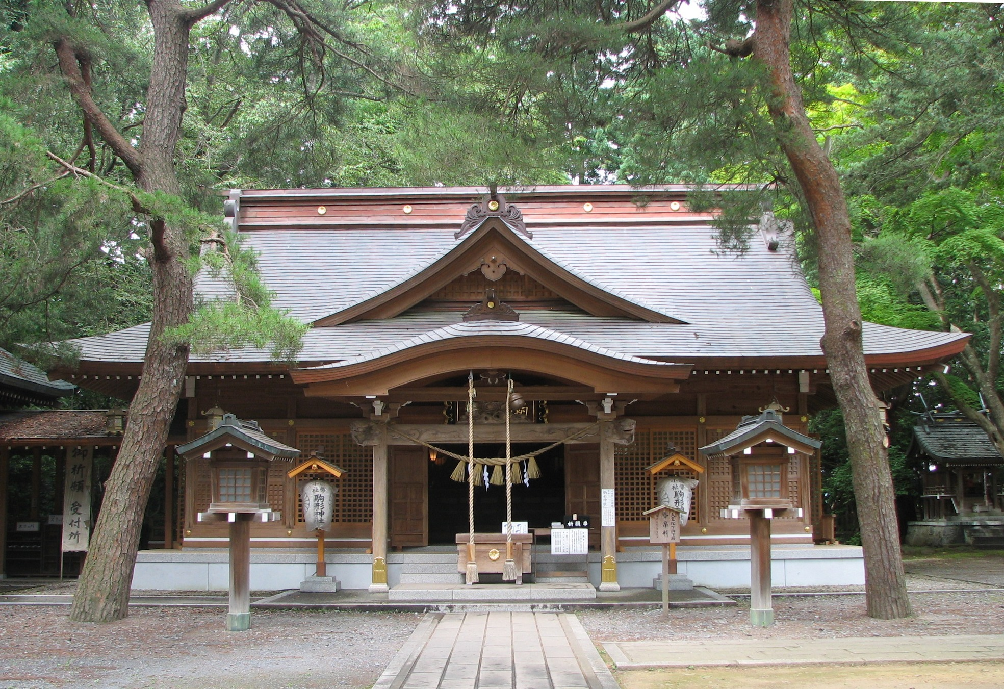 the haiden of Komagata Shrine, Mizusawa, Ōshū, Iwate, Japan 駒形神社拝殿（岩手県奥州市水沢区）